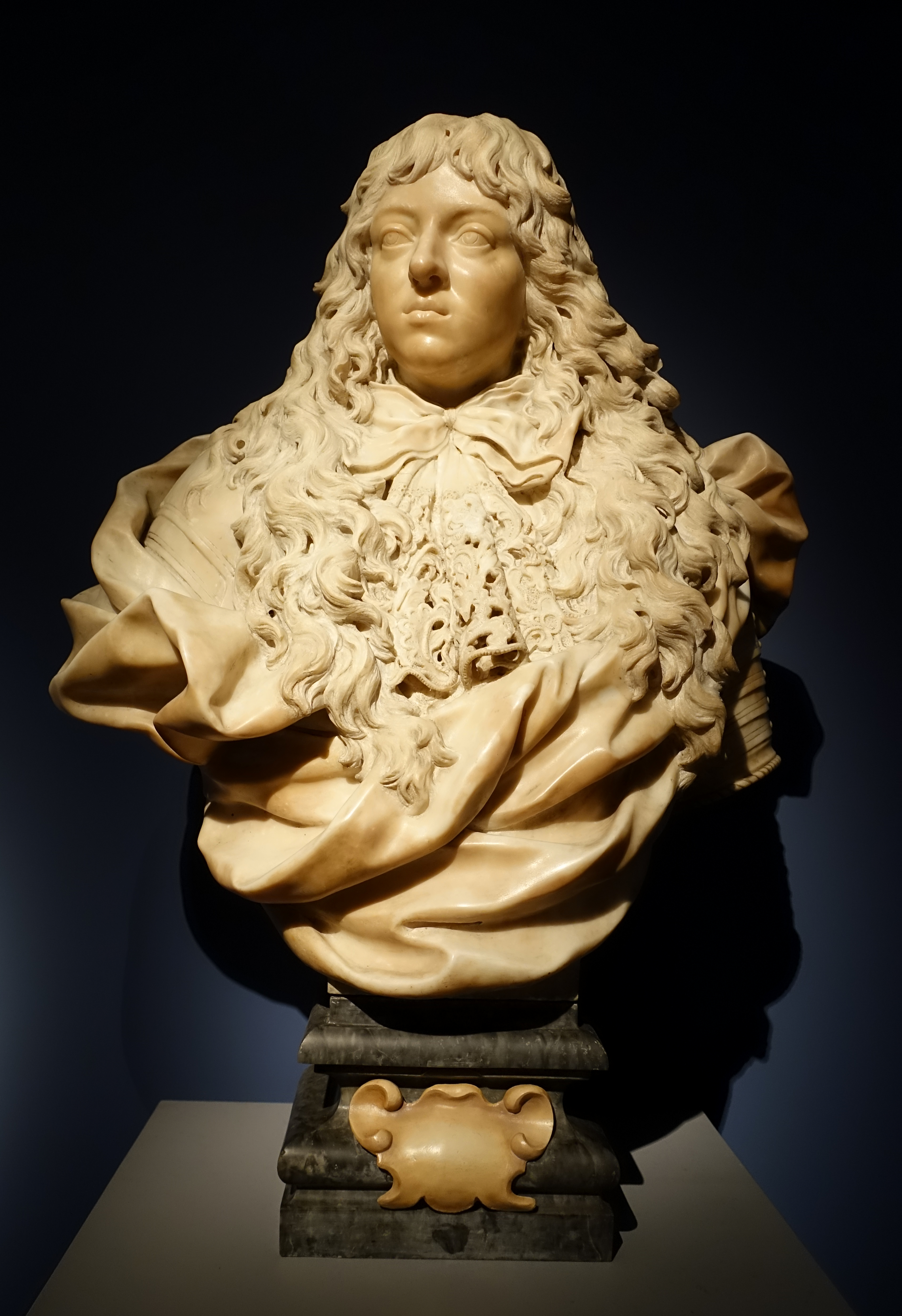 Exhibit in the Metropolitan Museum of Art - New York City, New York, USA.